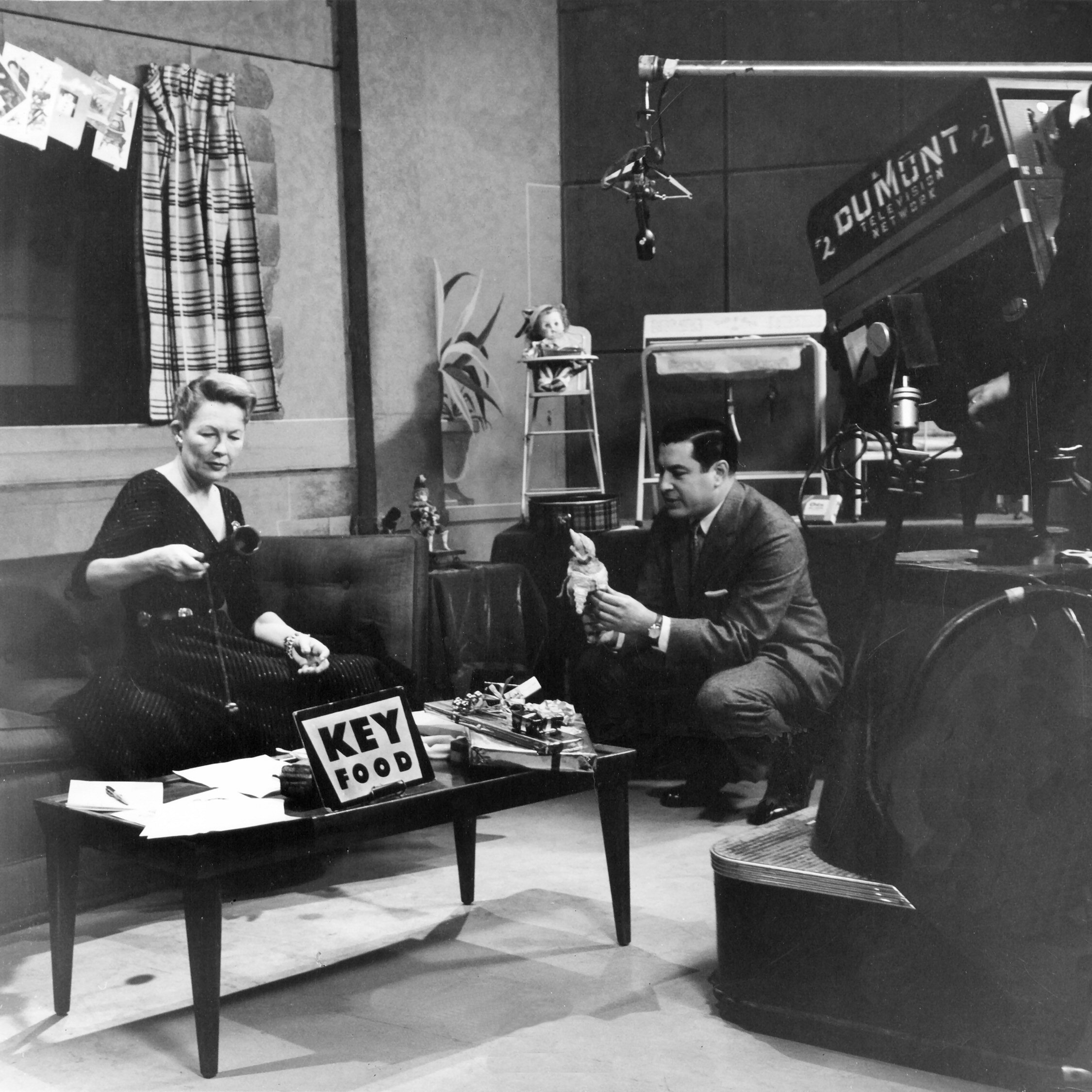 D. Dudley Bloom Amsco Toys sponsored The Wendy Barrie Show on the Dumont Television Network, soon to become ABC. Here, Bloom prepares Barrie for an Amsco commercial spot.